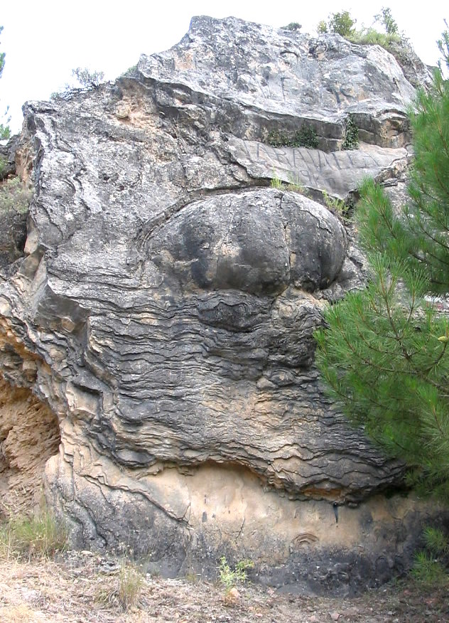 Calcareous rock. Near Taravilla Lake, Alto Tajo (Guadalajara, Spain)